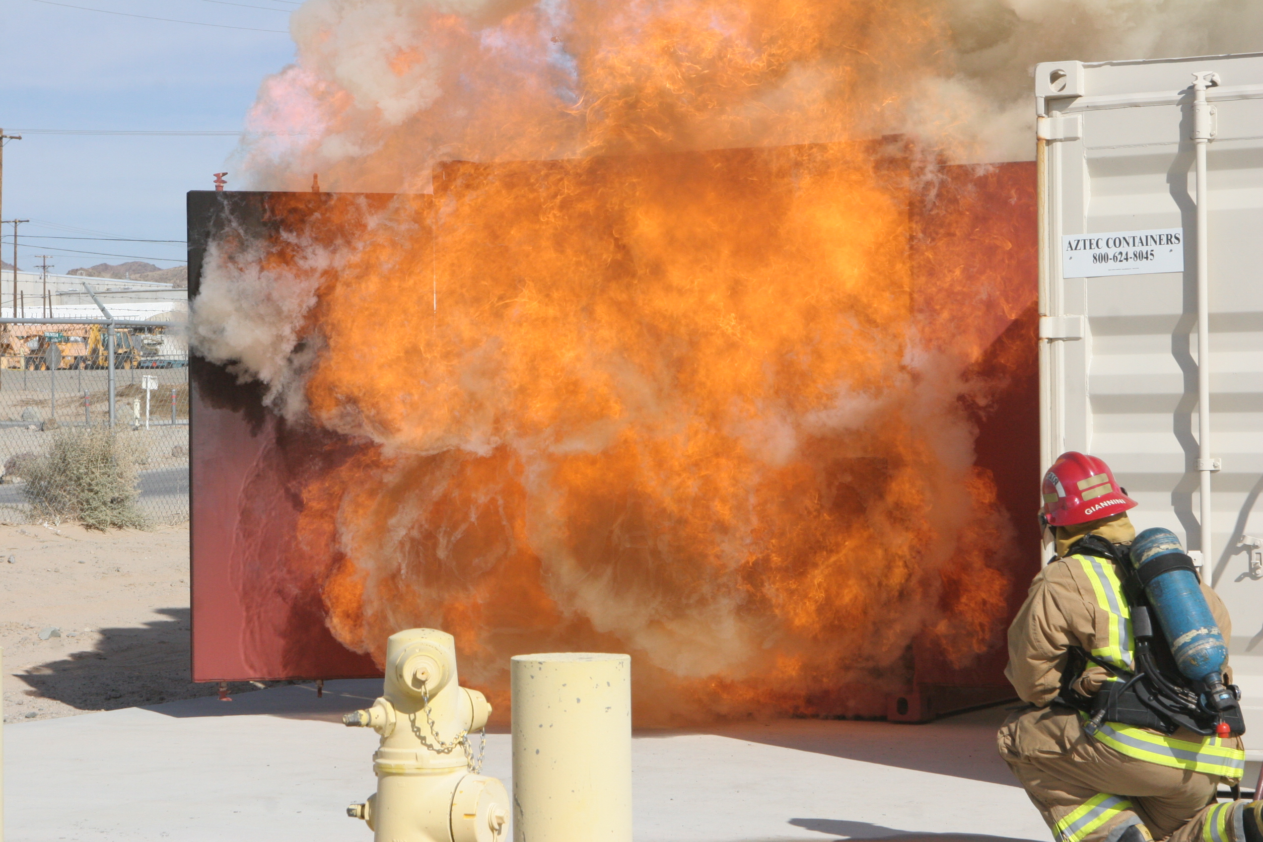 Fire Captain Wayne Giannini, CCFD firefighter, demonstrates the behavior of a backdraft during live-fire training Saturday.